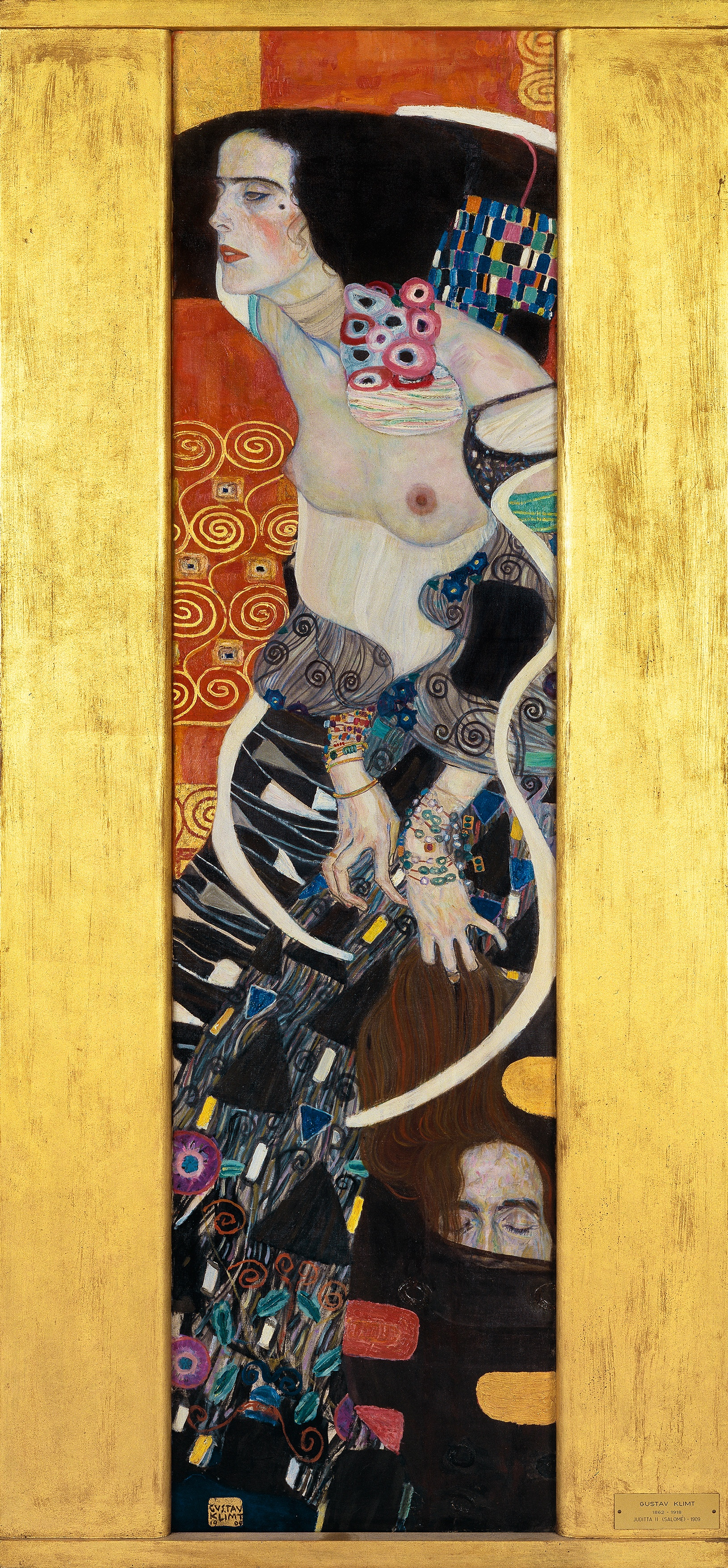 Judith II (Salome)